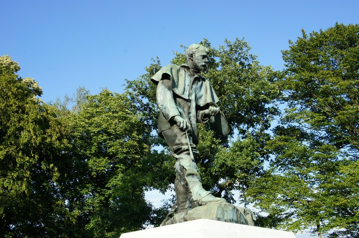 Statue of Jules Bastien-Lepage by Auguste Rodin in Damvillers his native village